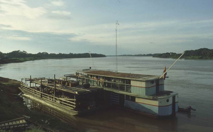 Mamoré River created by he:משתמש:בן הטבע